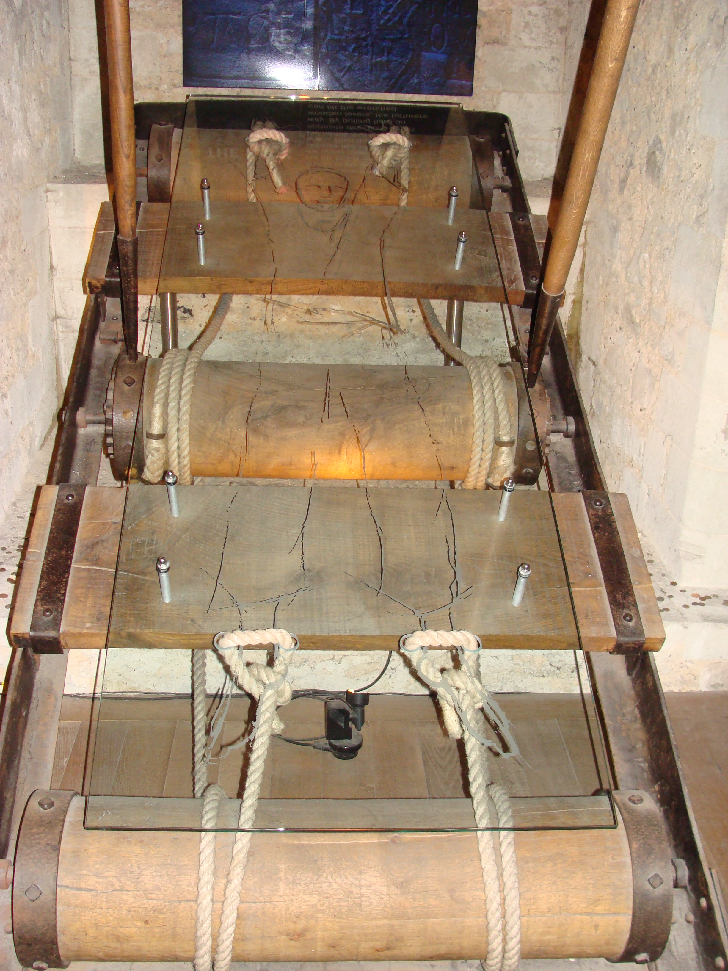 Tower of London